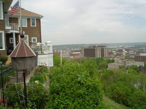 This is a view of the north from the observation deck of the Fourth Street Elevator in Dubuque, Iowa. Visible in this photo are the Dubuque Post Office, the Town Clock, and the Dubuque Building.